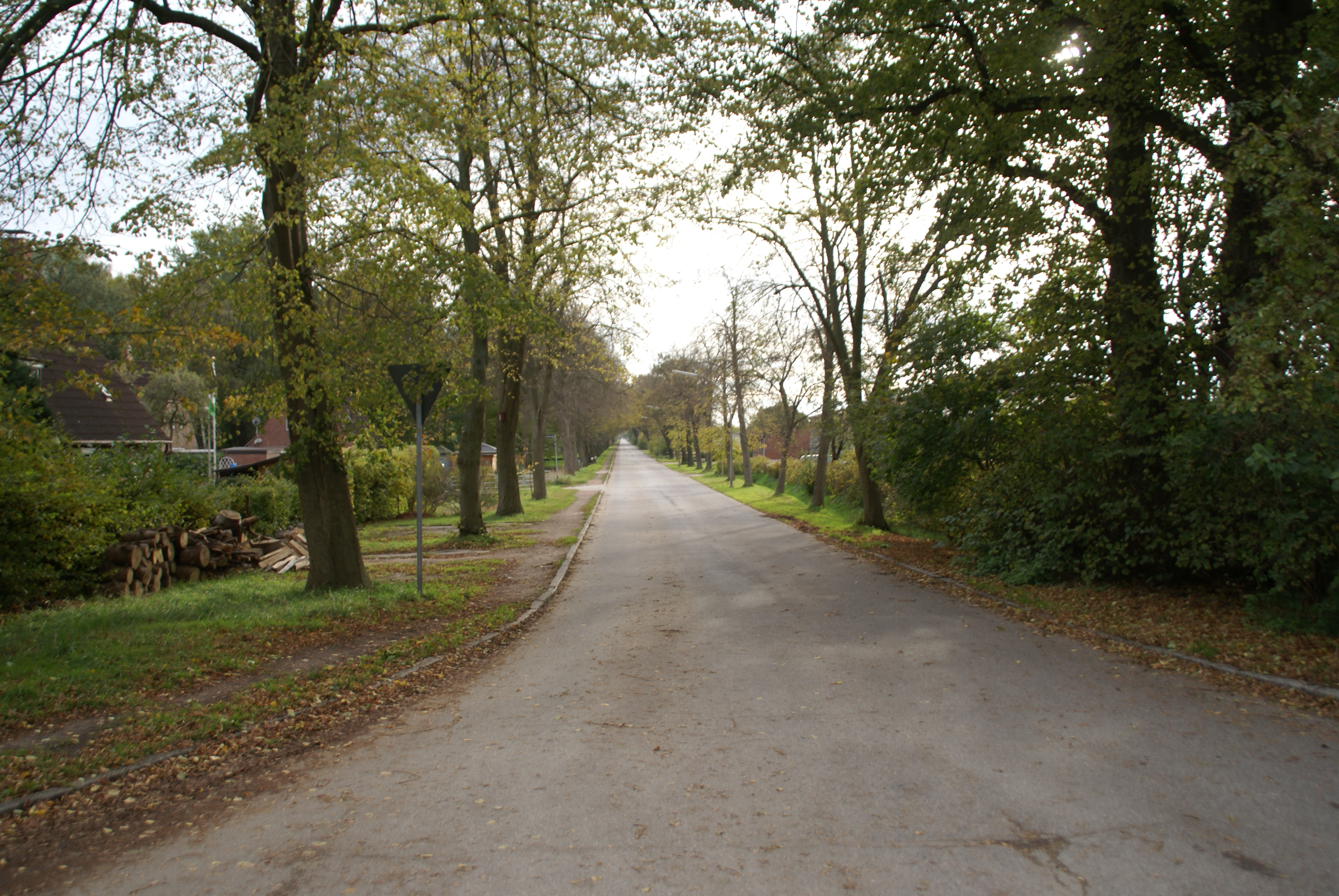 Hamburg (Neuengamme), Germany: The Jean Dolidier-Weg in the direction of the concentration camp